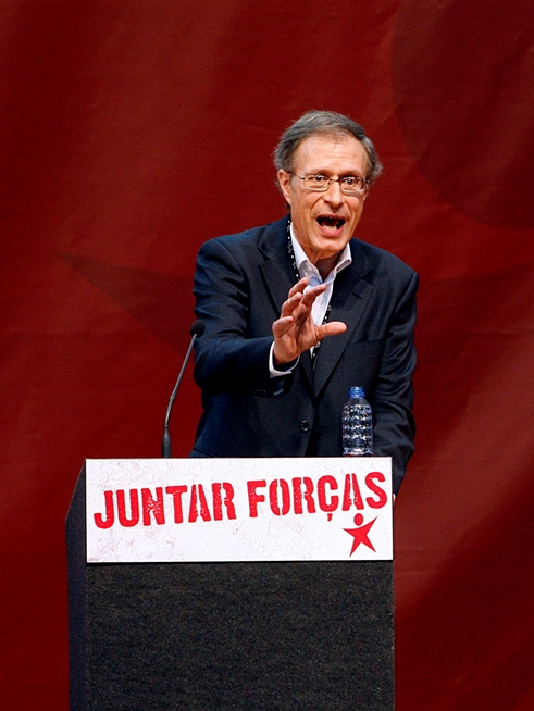 Francisco Louçã in VI National Convention of Left Bloc.